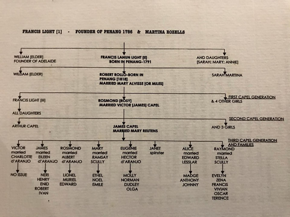 This family tree was created by one of the descendants of Francis Light